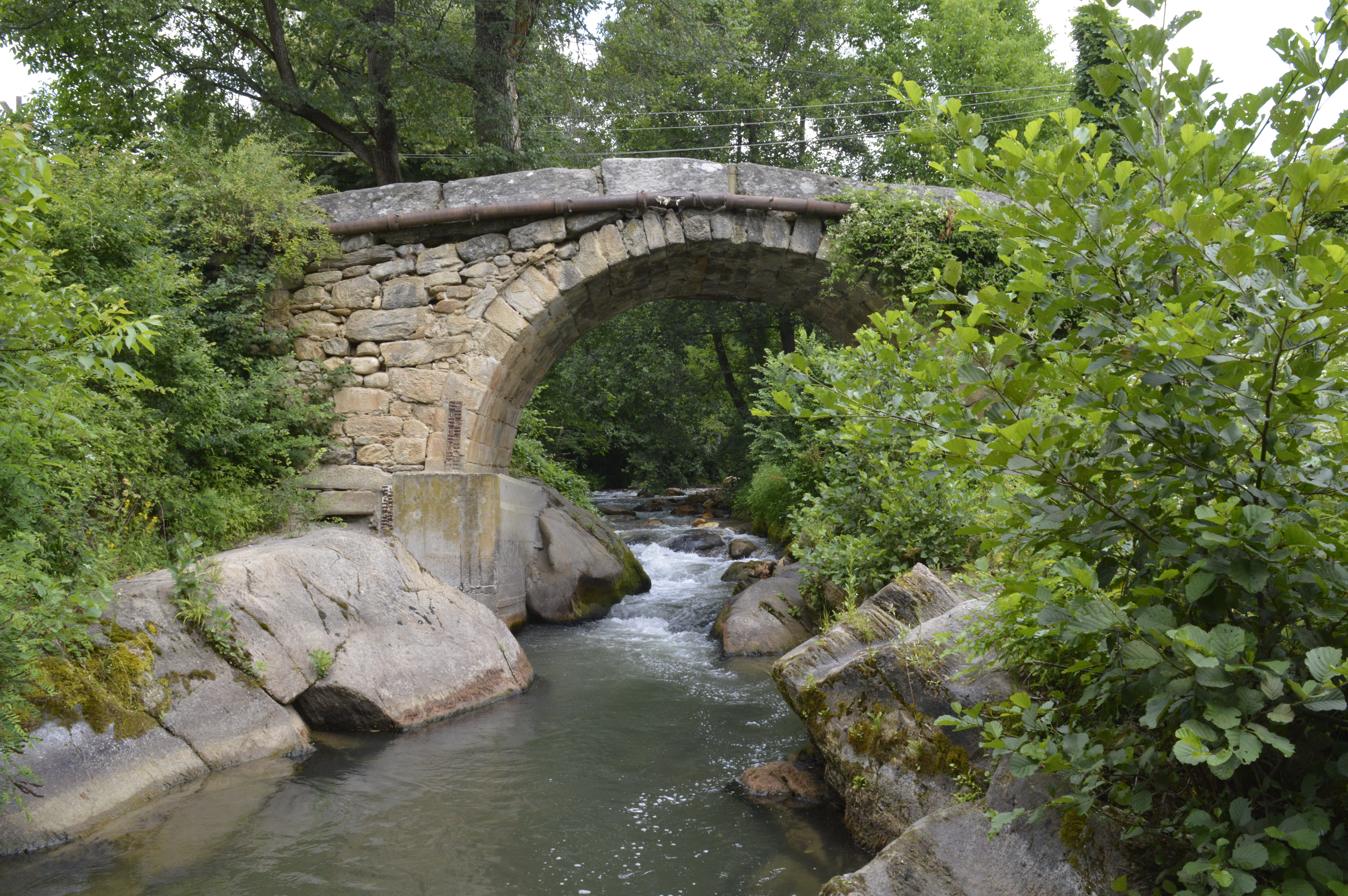 Roman bridge in the village Bogomila